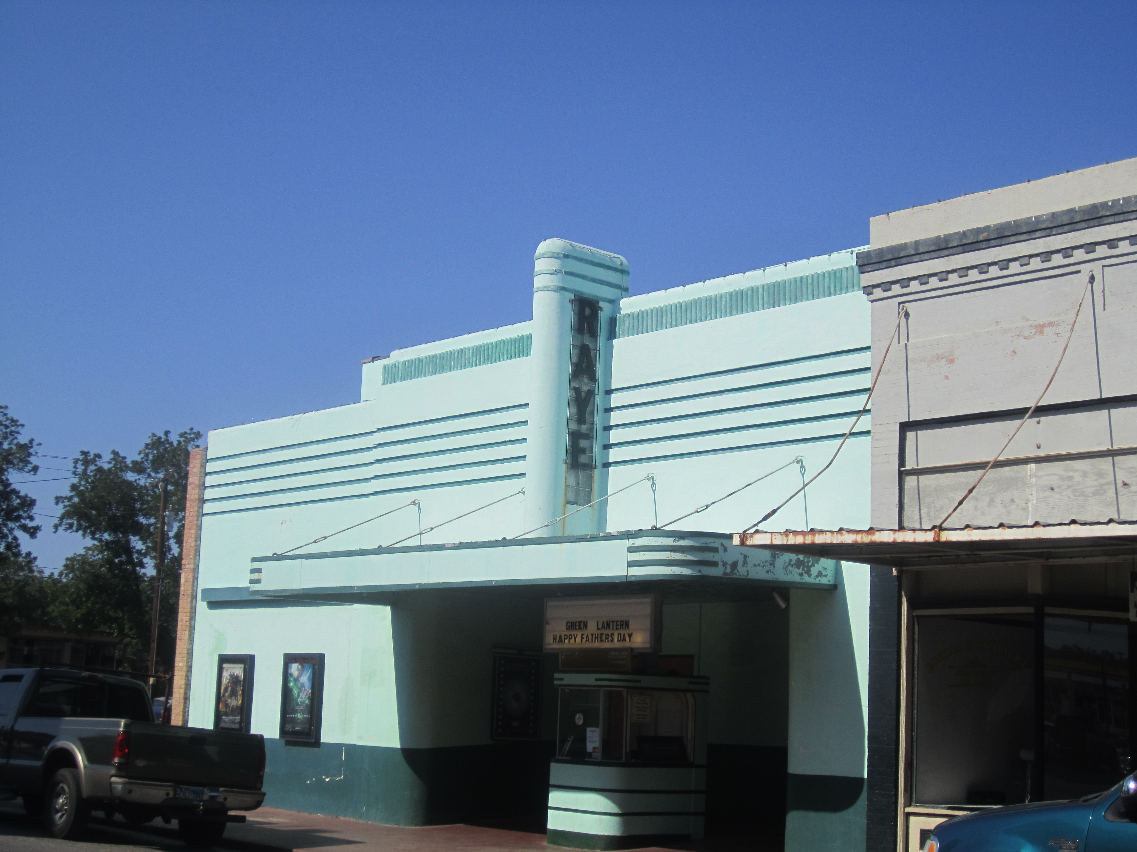 I took photo with Canon camera in Hondo of the still functioning Raye Theater.